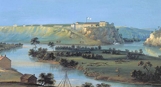 Fort Snelling in the background; Pike Island in the middle; the settlement of Mendota in the left foreground. Cropped image of original.